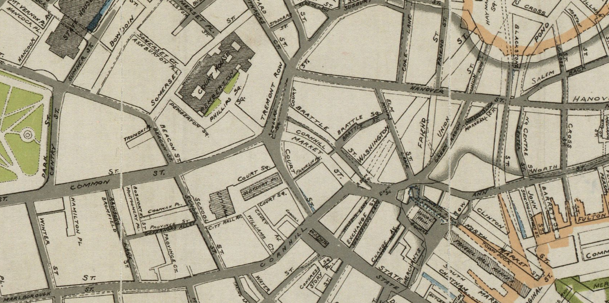 Detail of map of Boston, Massachusetts, USA. Title: Plan of Boston proper, showing changes in street and wharf lines, 1795 to 1895 Author: Perkins, Charles Carroll Publisher: Geo. H. Walker & Co., Boston Date: 1895